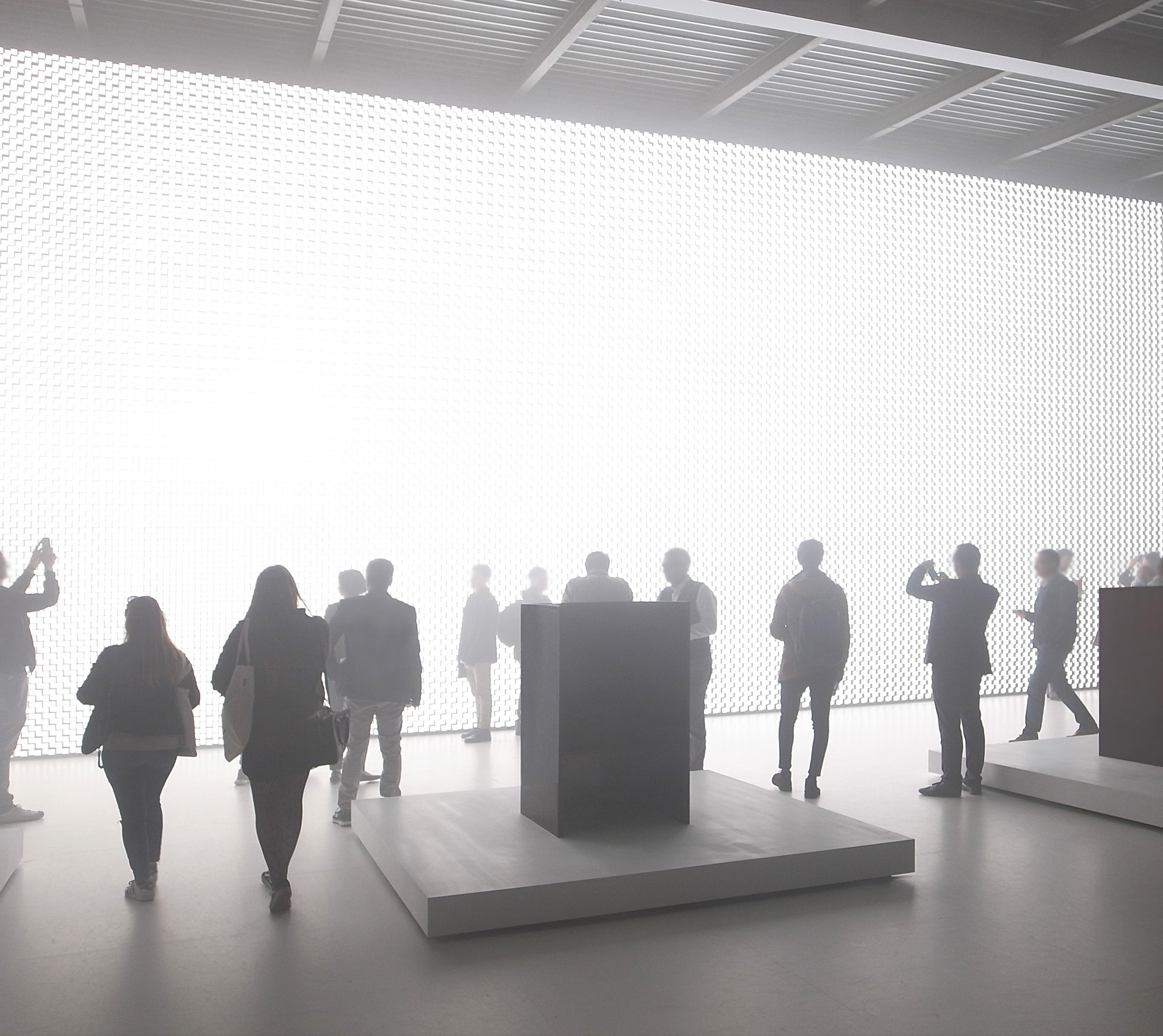 S.F Senses of the Future by Tokujin Yoshioka